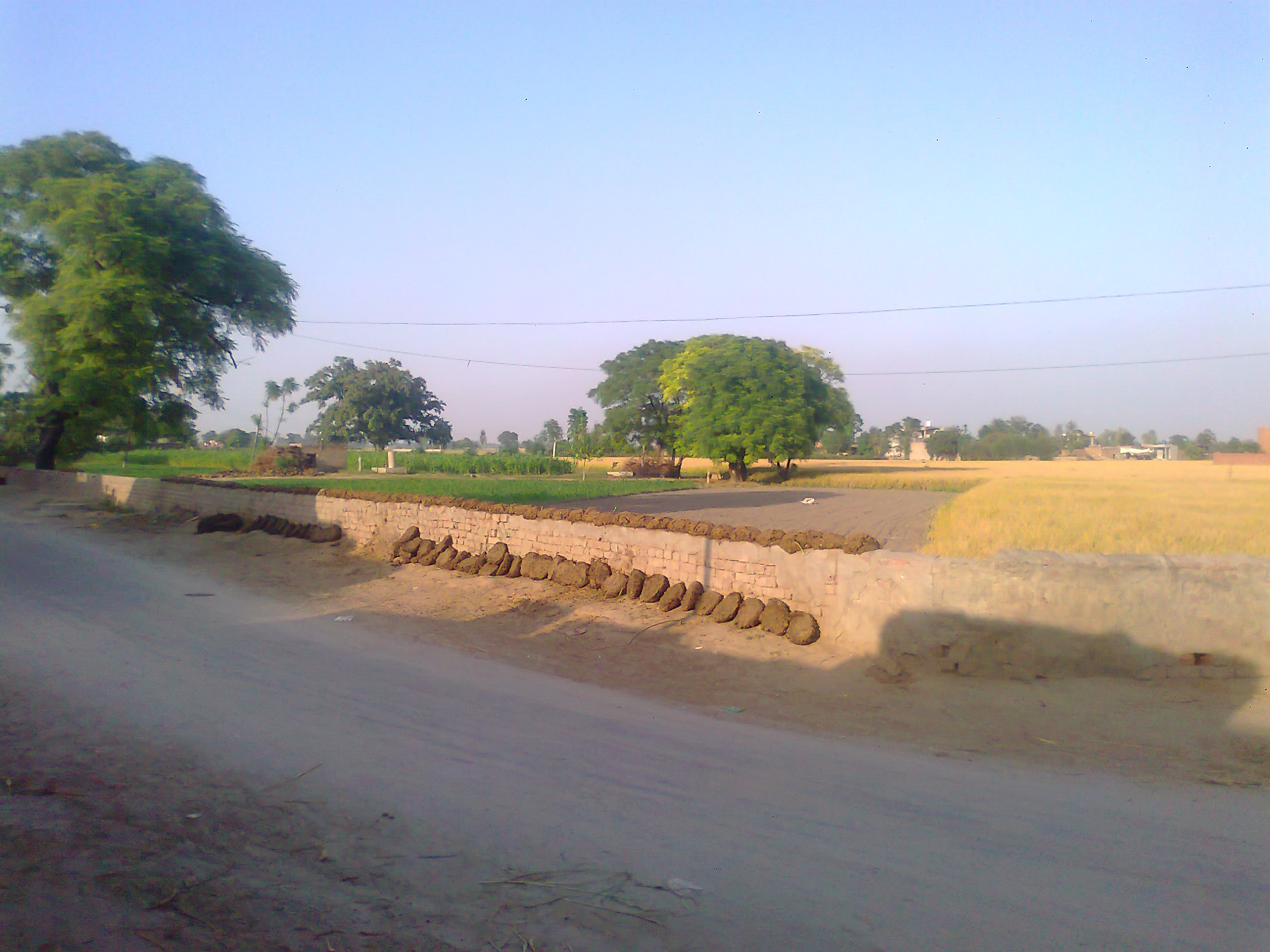 This is a old picture of village Ghabdan kothi. when i had captured it i was standing near a street in BASSI patti region of this village.